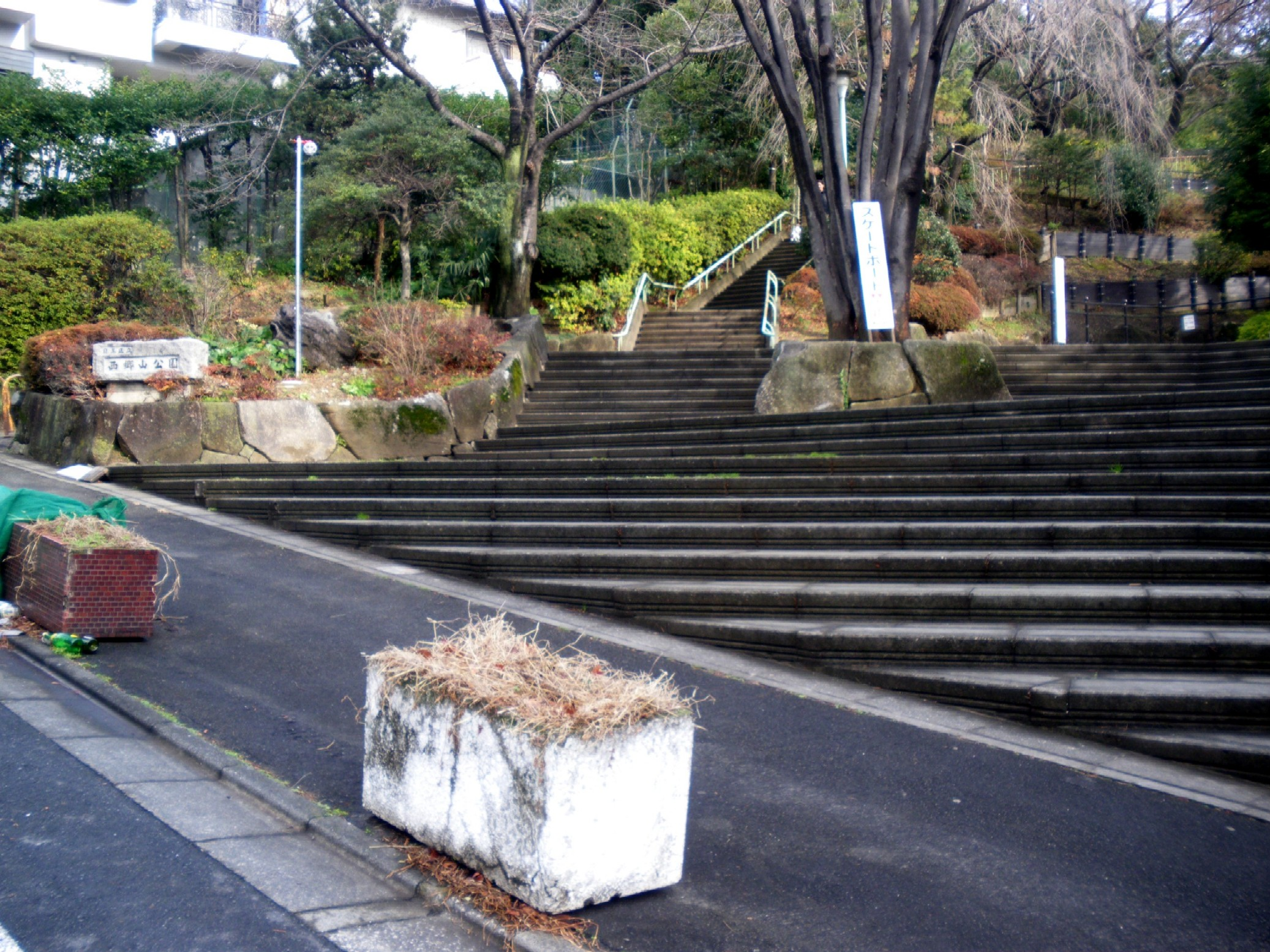 Saigoyama Park (seen from west side) in Aobadai, Meguro-ku, Tokyo, Japan